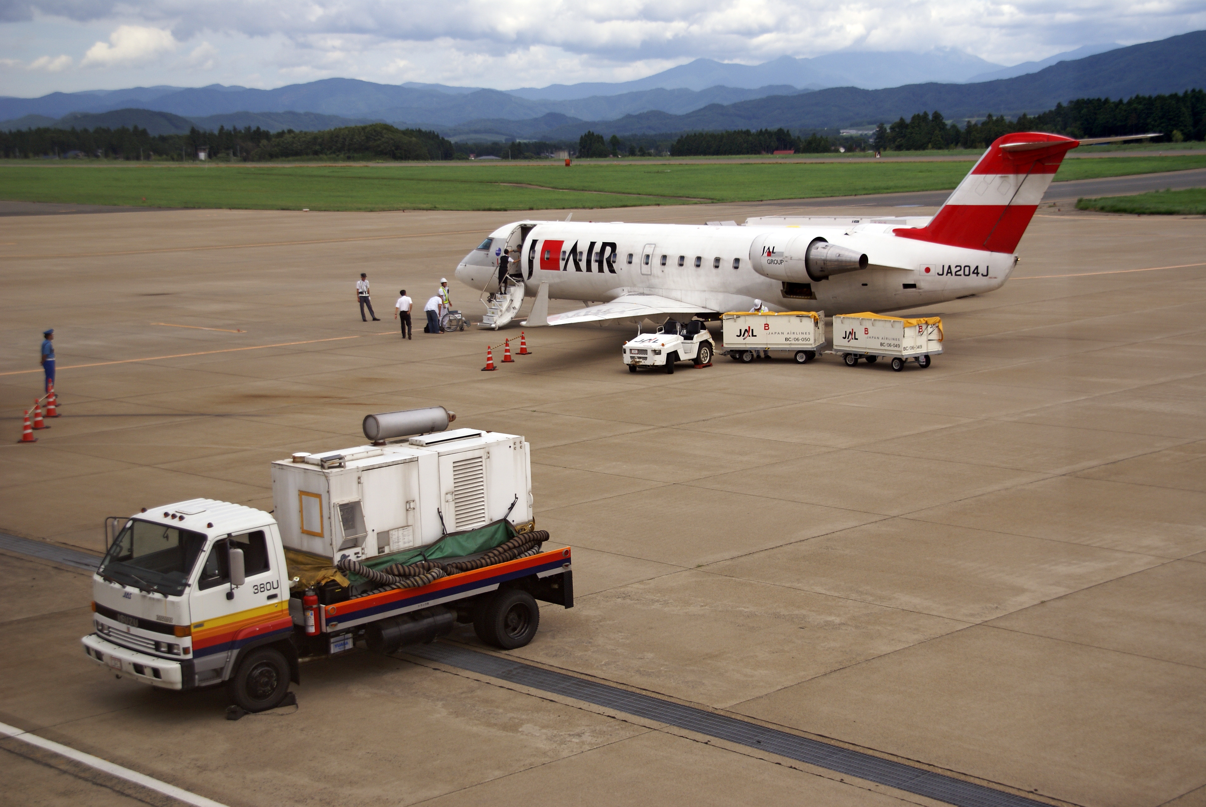 Hanamaki Airport in Hanamaki, Iwate prefecture, Japan